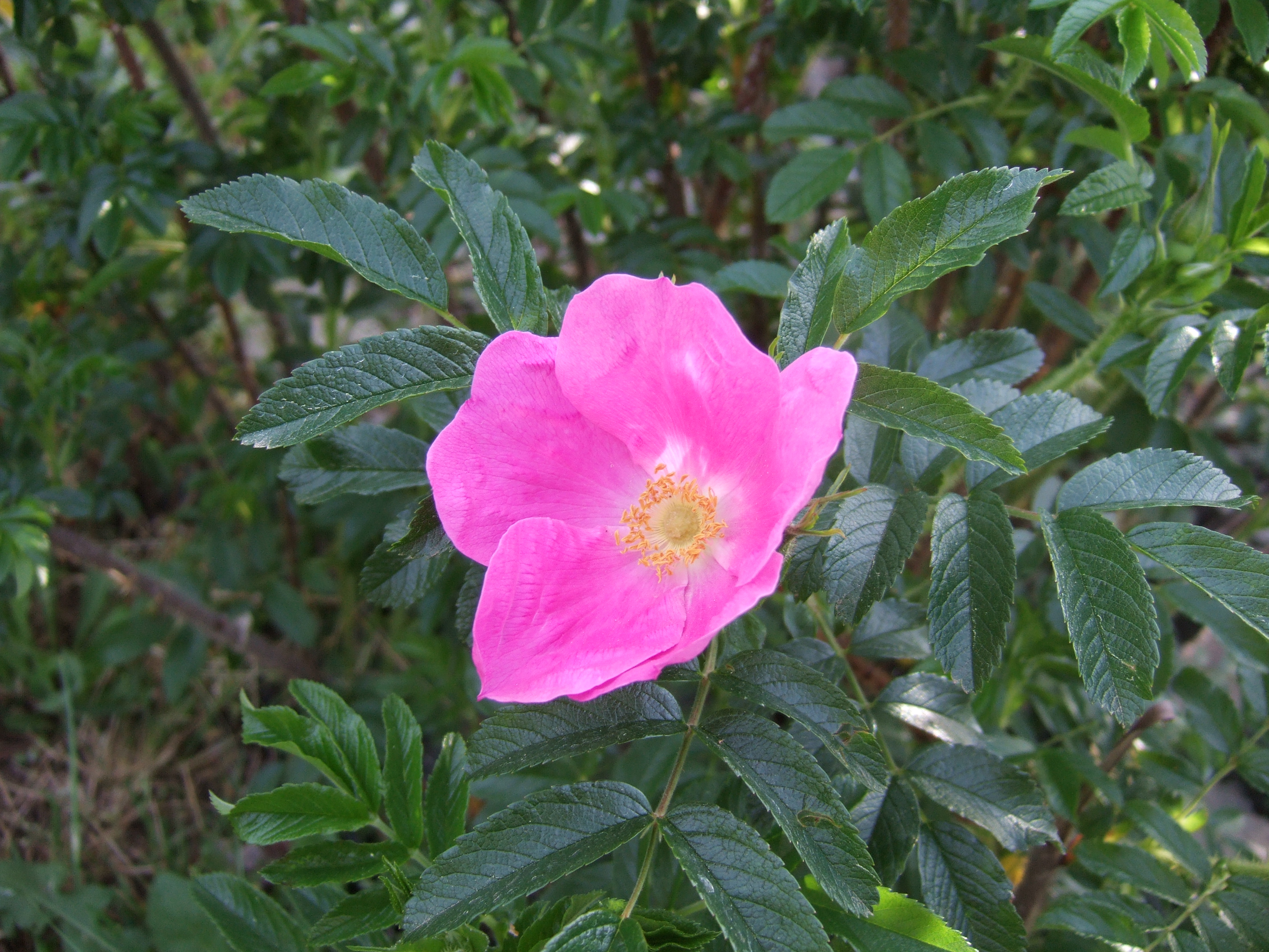 Rosa 'Corylus' (R. rugosa x R. nitida), Hamadera Park, Sakai, Japan